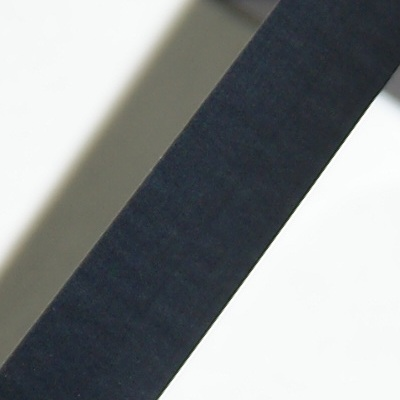 Cassette tape, coated with chromium dioxide (CrO2). Cr4+ is dark brown to black.